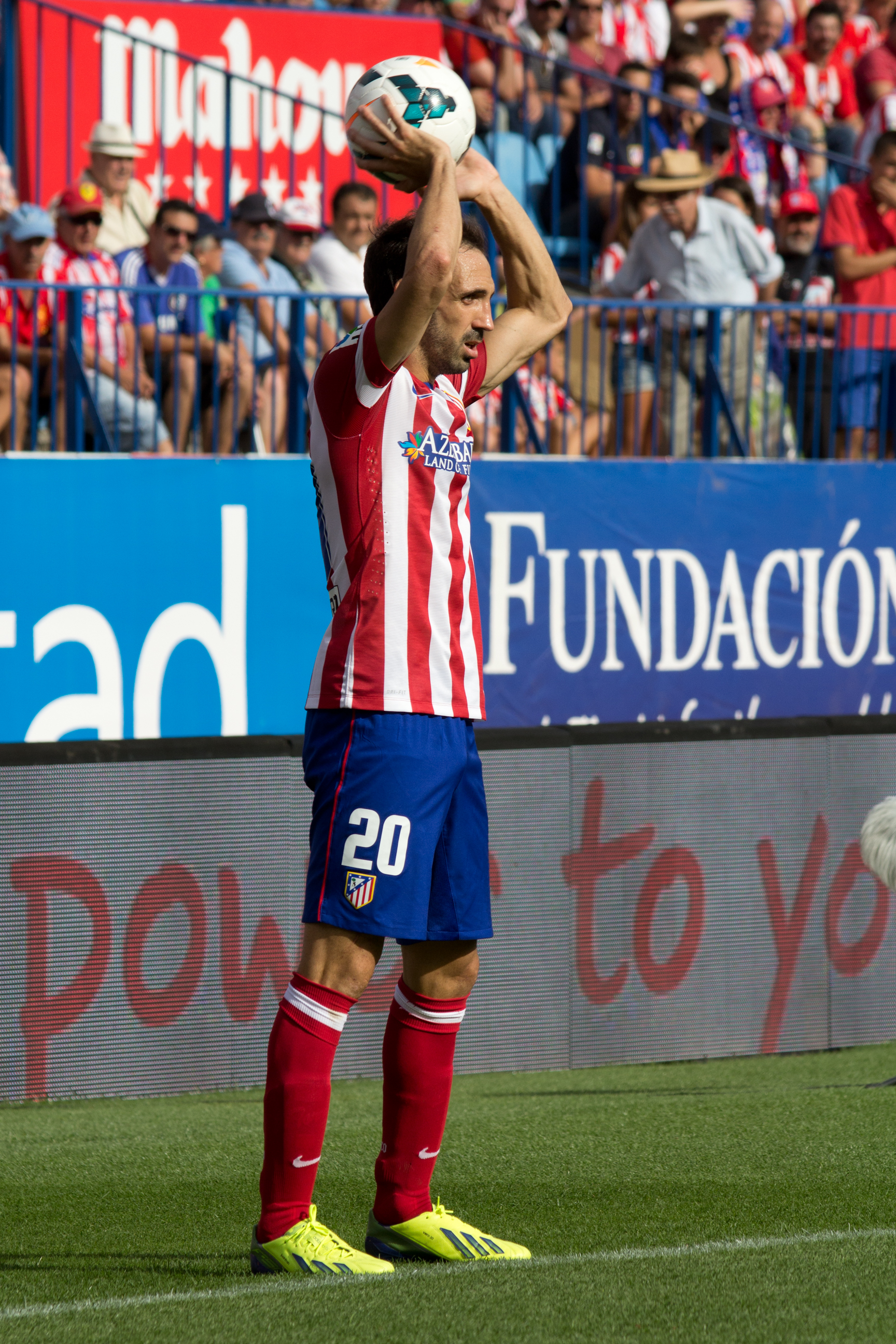 Juanfran Torres, footballer of Atlético de Madrid.